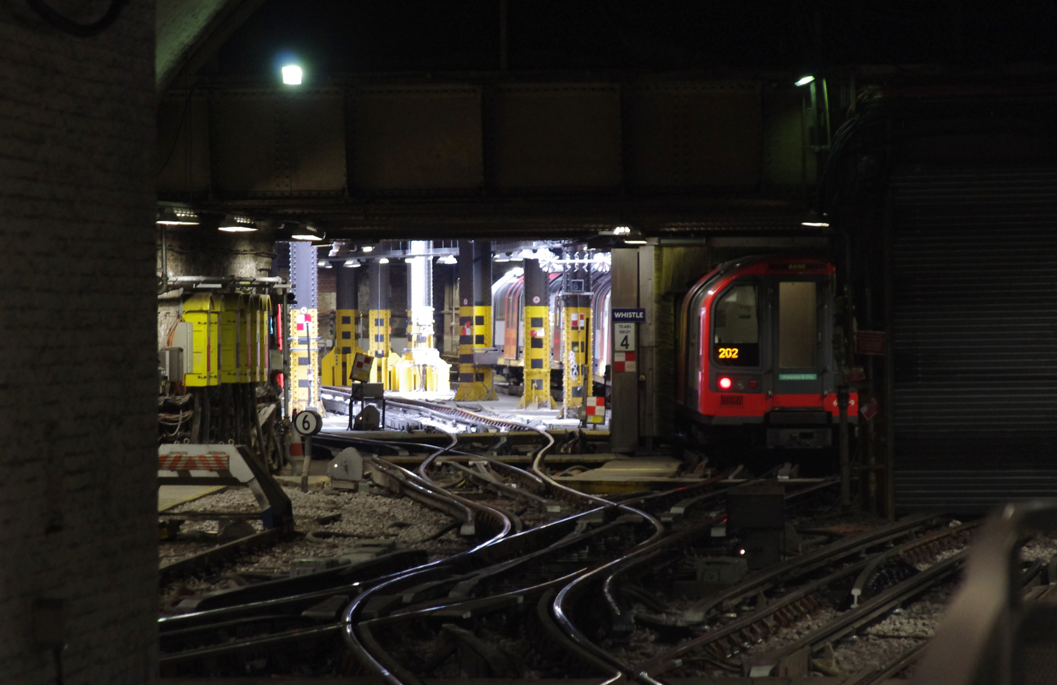 A London Underground 1992 Stock (or British Rail Class 482) EMU in the Waterloo LUL depot.